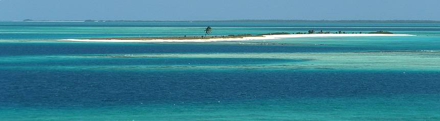 Las Aves de Sotavento taken from the lighthouse by